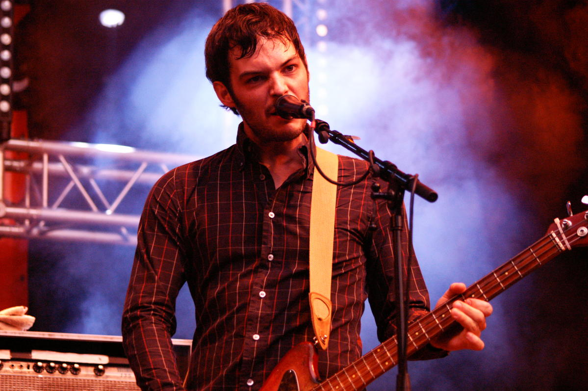 Niek Meul, performing with Das Pop at the Booch Festival